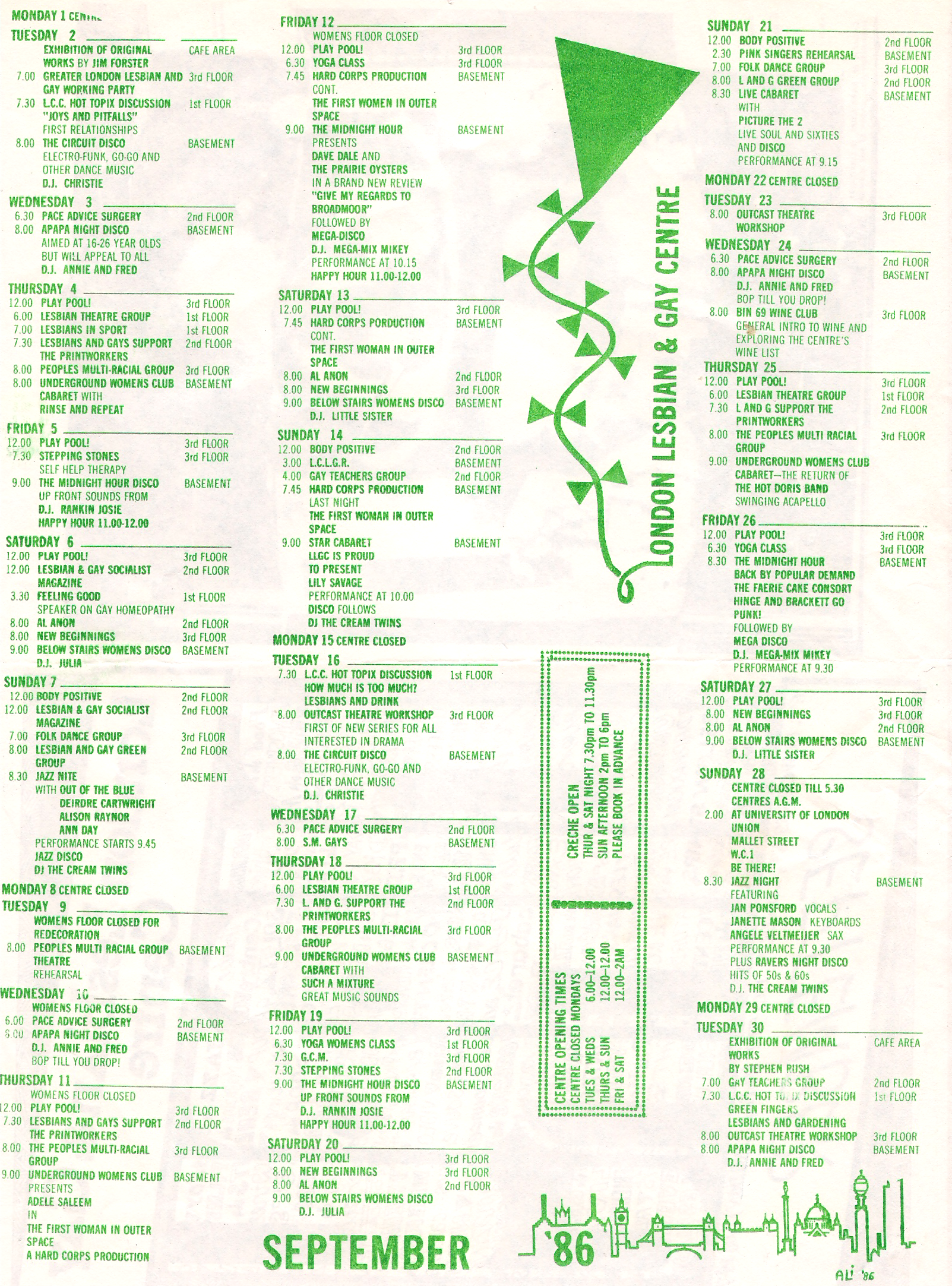 Scan of calendar leaflet (inside) for the London Lesbian & Gay Centre, September 1986. Original produced by me too.